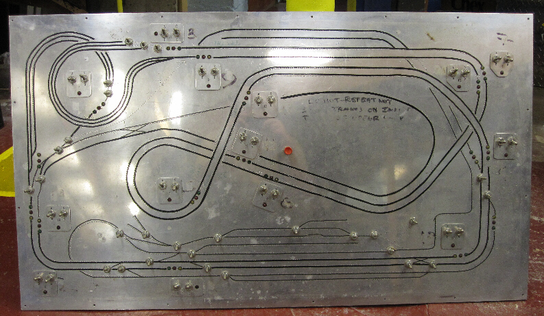 Control panel display of the original layout at Cherry Valley Model Railroad Club, Merchantville NJ.